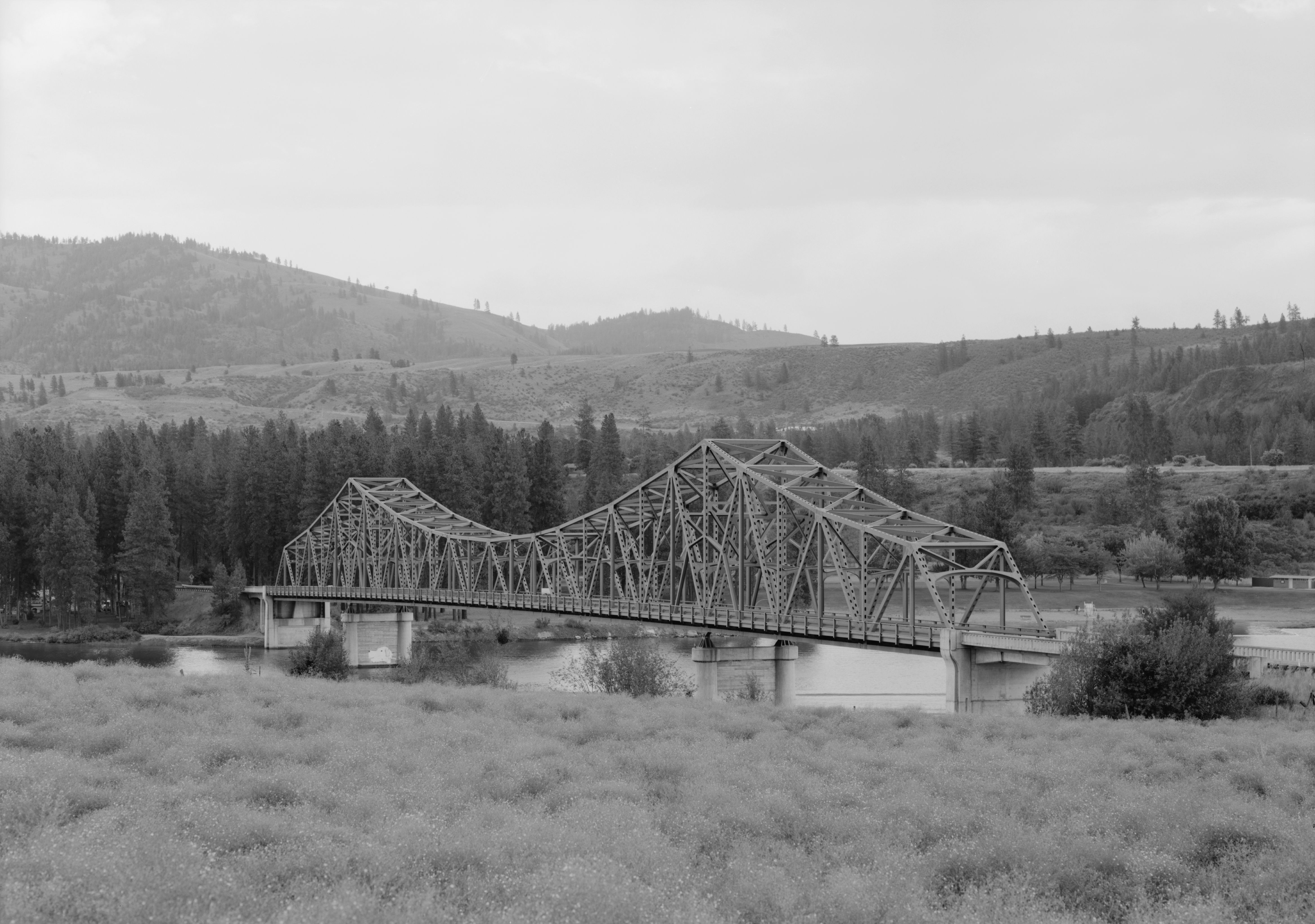 The Spokane River Bridge at Fort Spokane, near Miles, Washington.